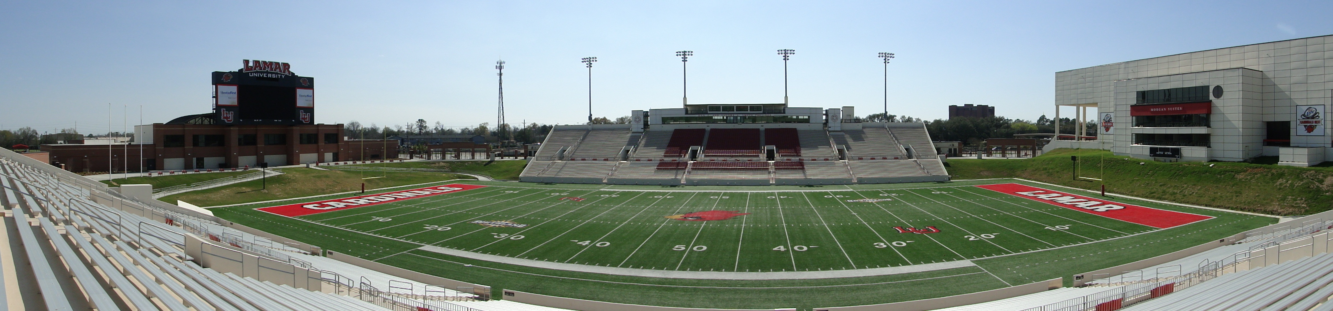 Provost Umphrey Stadium from visitors side.